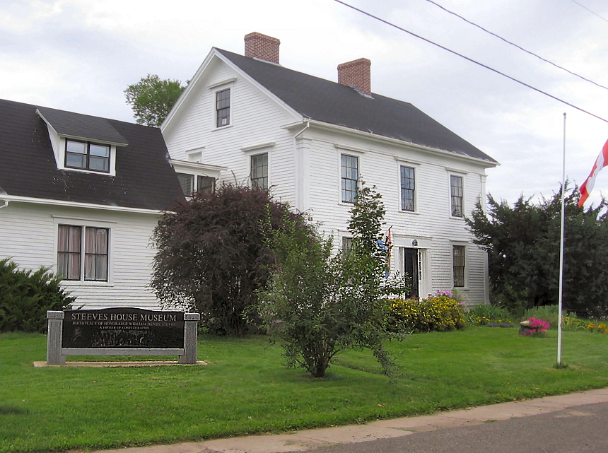 The William Henry Steeves House in Hillsborough, New Brunswick. It is now a museum. Self made. Straightened and cropped.